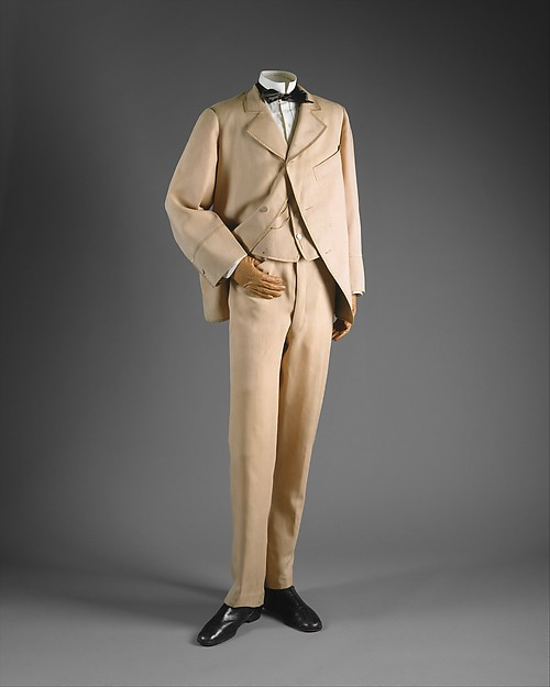 Suit Date:1865–70 Culture:British Medium:wool, silk, cotton Credit Line:Purchase, Irene Lewisohn Trust Gift, 1986 Accession Number:1986.114.4a–c